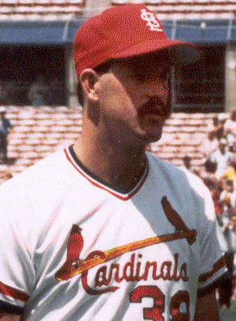 Cardinal Pitcher Todd Worrell.